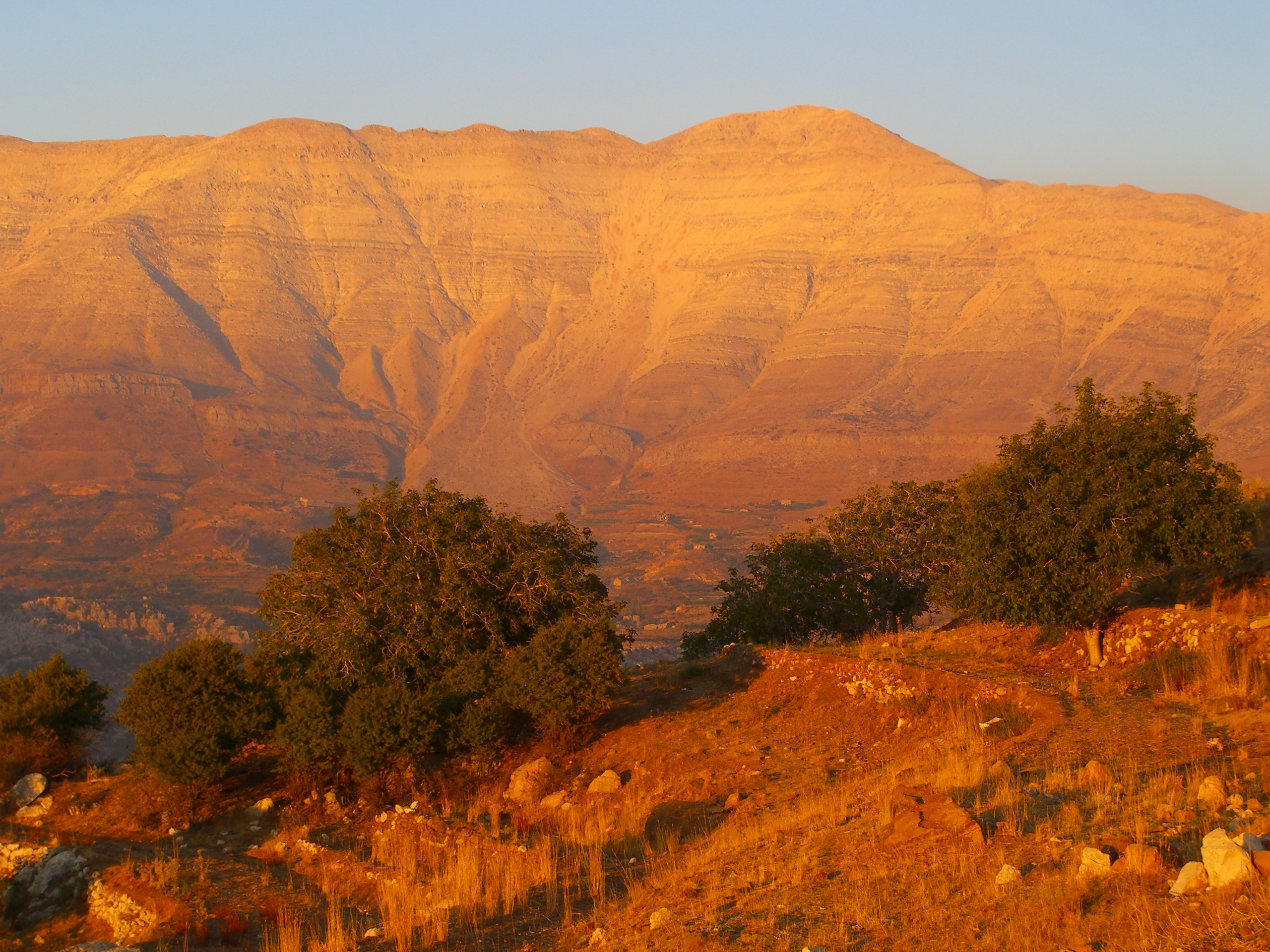 This photograph of Mt. Sannin was taken from Zaarour - a ski-resort in Bteghrine, Lebanon. Photo taken summer 2005